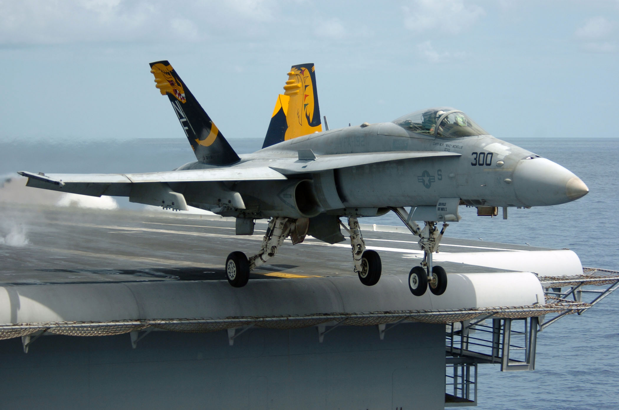 Pacific Ocean (Aug. 17, 2005) – An F/A-18C Hornet, assigned to the "Golden Dragons" of Strike Fighter Squadron One Nine Two (VFA-192), launches from the flight deck of the conventionally powered aircraft carrier USS Kitty Hawk (CV 63). Kitty Hawk and embarked Carrier Air Wing Five (CVW-5) are currently returning to their homeport after a scheduled deployment in the 7th Fleet area of responsibility.